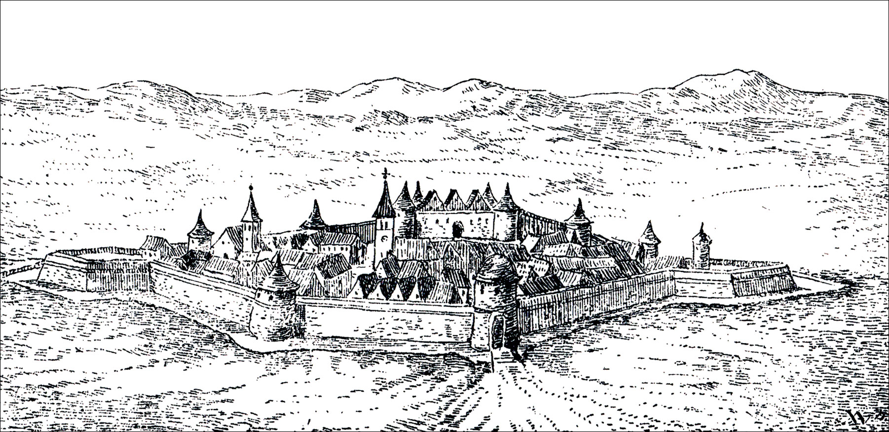 Bihać fortified place of Croatia Kingdom. It's a clean-up version of Bihac_tvrdi_grad_AD_1590.jpg